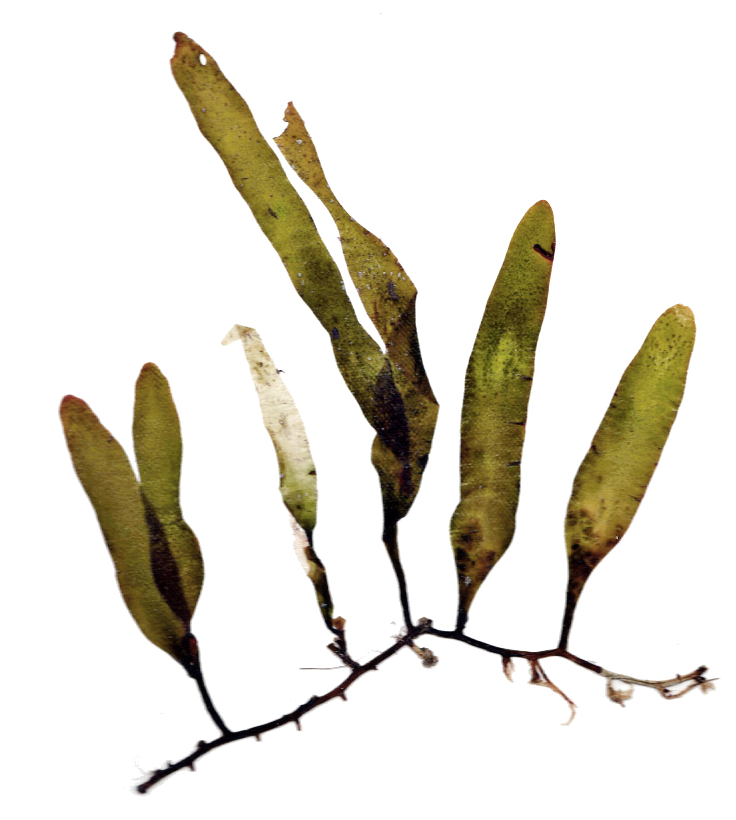 Caulerpa prolifera scan of herbarium: B.navez - JUL 1982 - Cannes (France)